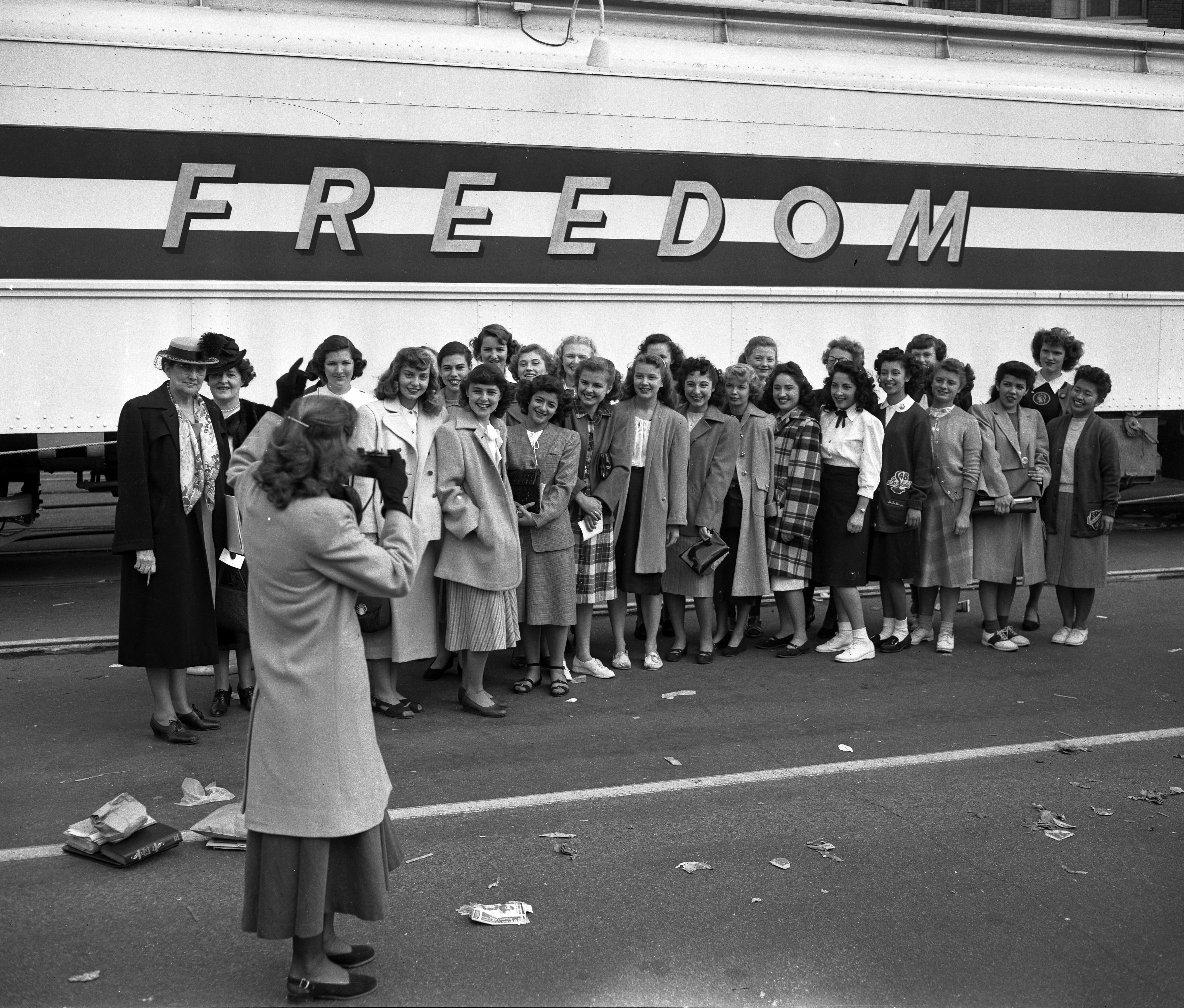 Title: Susan B. Anthony Club members having picture taken in front of Freedom Train in Los Angeles, Calif., circa 1948 Publication:Los Angeles Daily News Publication date:circa 1948 Note: Train was in LA from February 23–February 26 1948 Source:Los Angeles Times photographic archive, UCLA Library Note about non-renewal of copyright: [1]